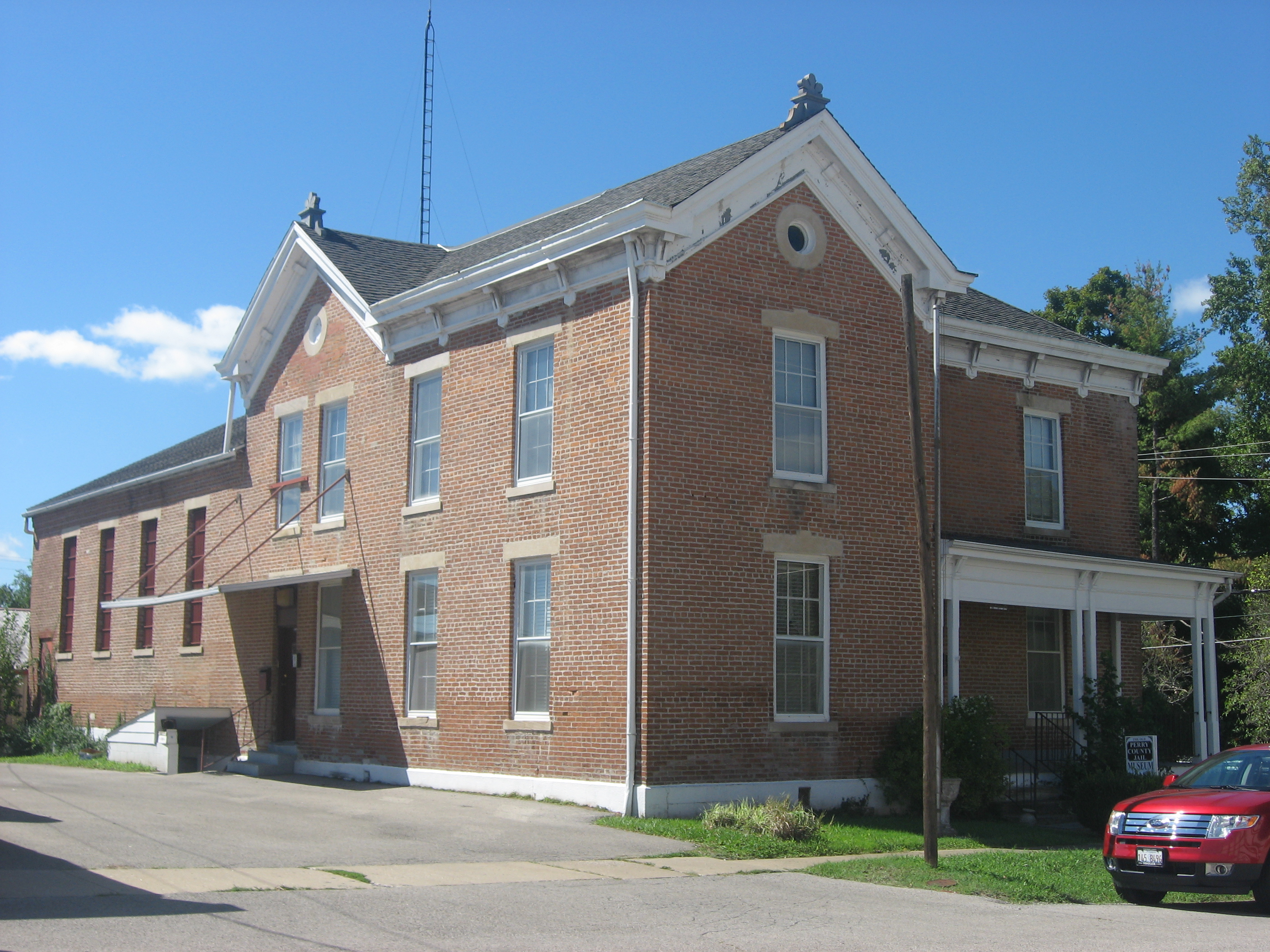 Front and eastern side of the old Perry County Jail, located at 108 W. Jackson Street in Pinckneyville, Illinois, United States. Built in 1871 according to a Samuel Hannaford design, it is listed on the National Register of Historic Places.